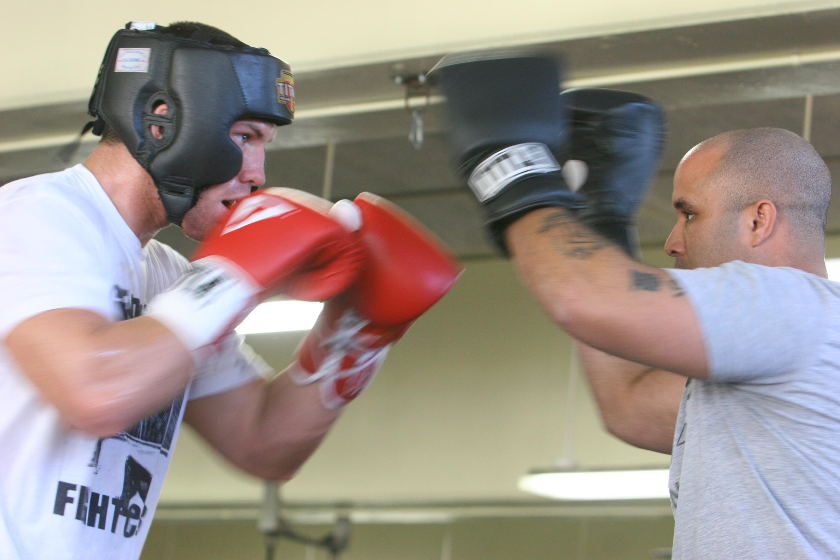 Keith Berry, professional mixed martial arts fighter practices his techniques with Anthony Day, Camp Pendleton’s boxing team coach during “Health Clinic” held at Area 33 Fitness Center Sunday.